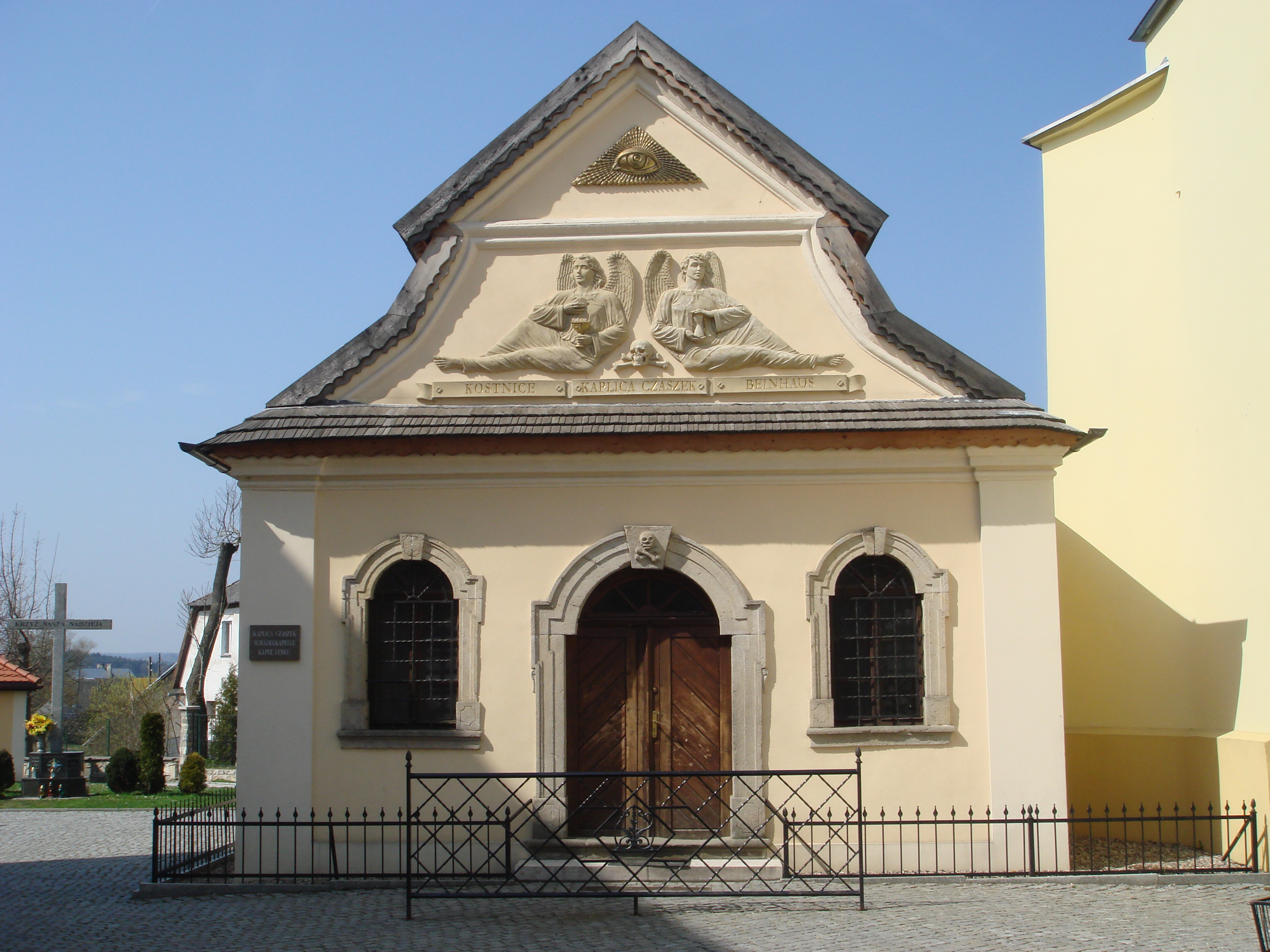 The Skull Chapel in Czermna (Kudowa-Zdrój, Lower Silesian Voivodeship, Poland).